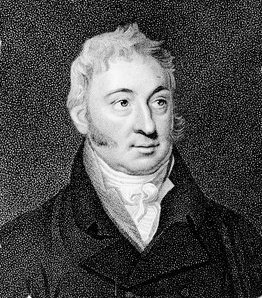 Sir William Ouseley (1769 - September, 1842), was a British Orientalist.